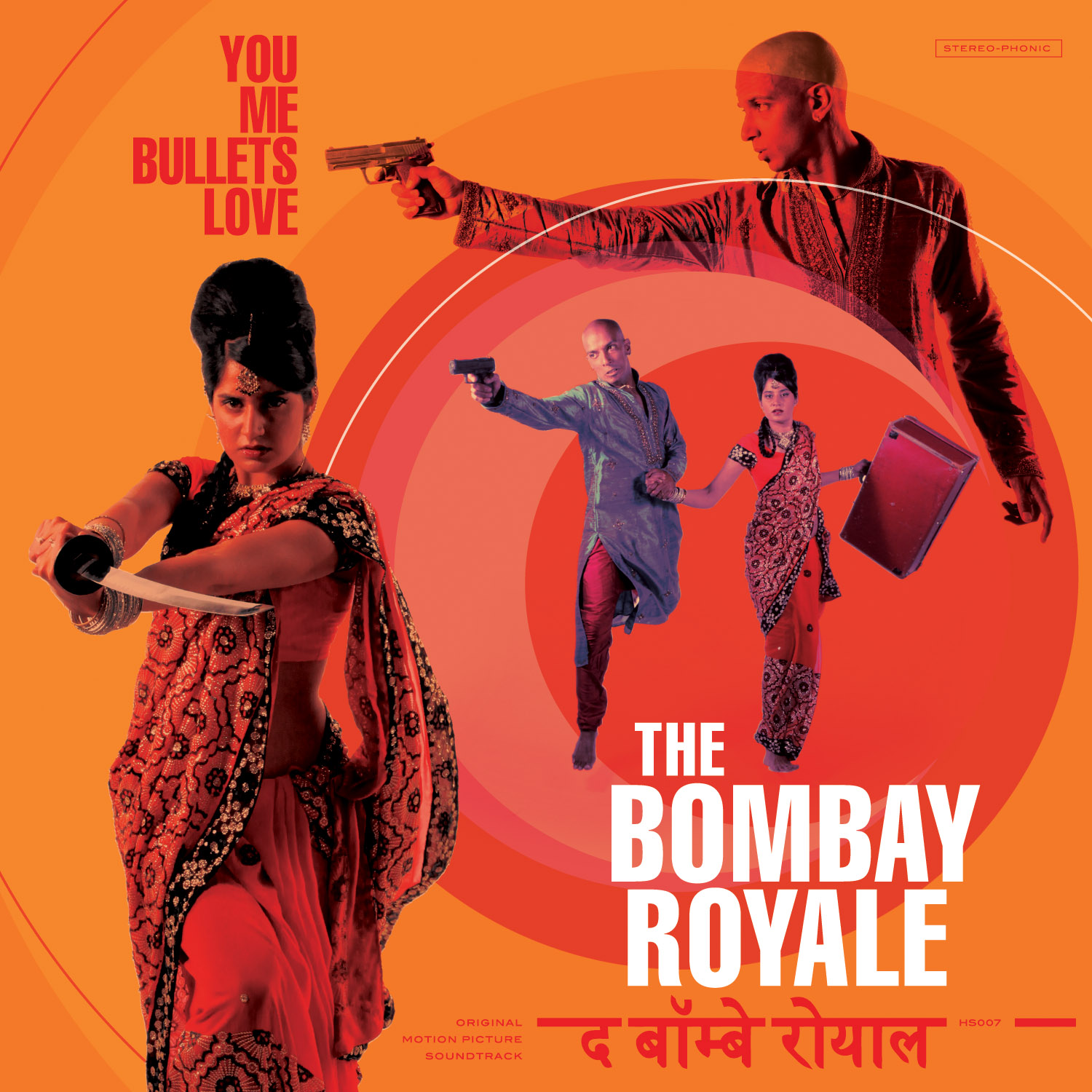 Album Cover - You Me Bullets Love, released on gateway fold vinyl, CD and digital formats in 2012.